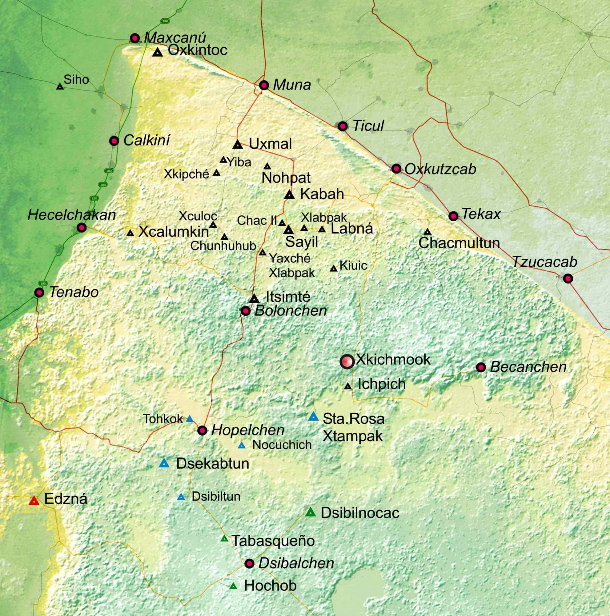 Situation of Xkichmook in Yucatan, Mexico